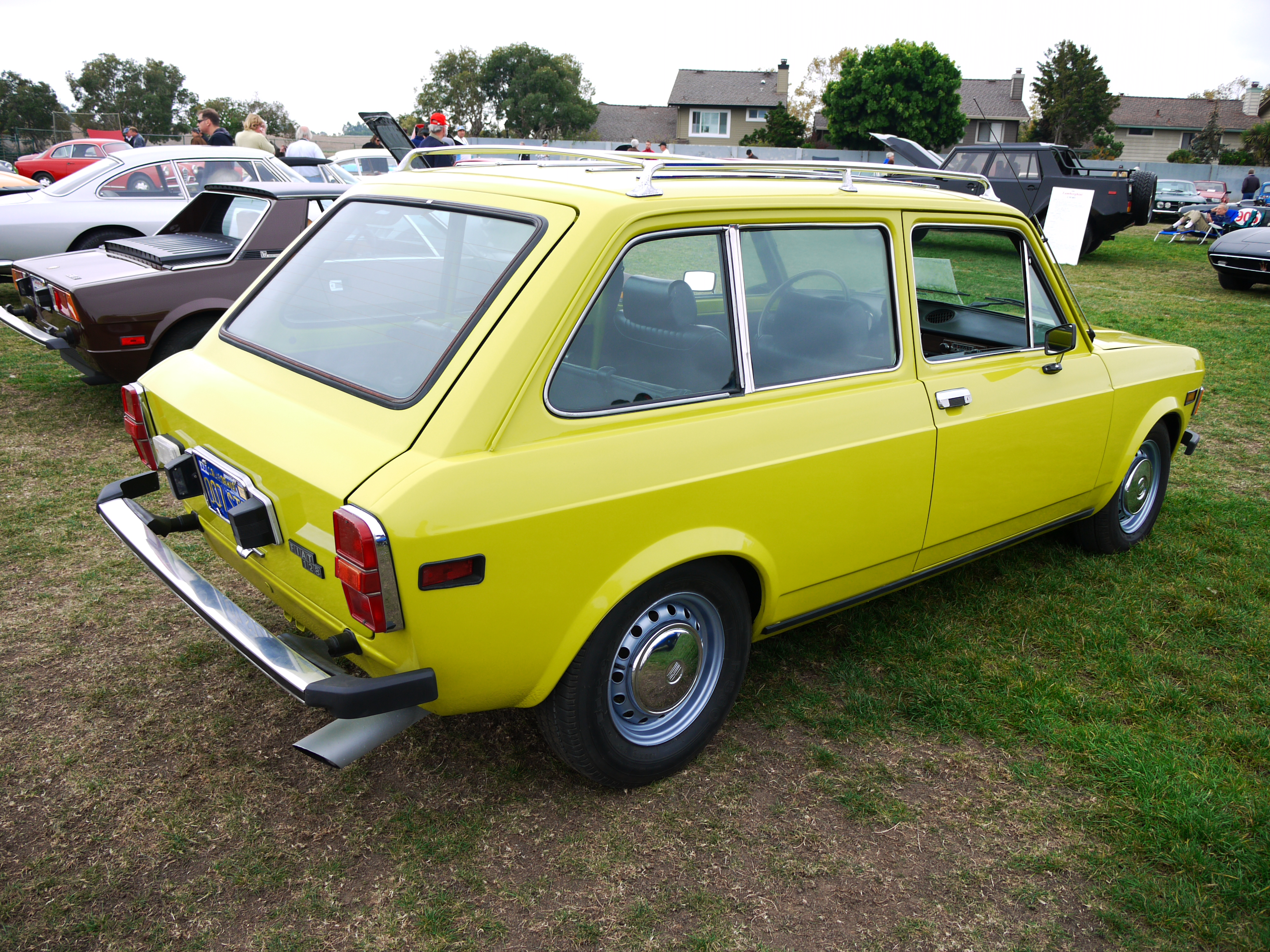 1976 Fiat 128 Familiare at the 2009 Alameda All Italian Car & Motorcycle Show